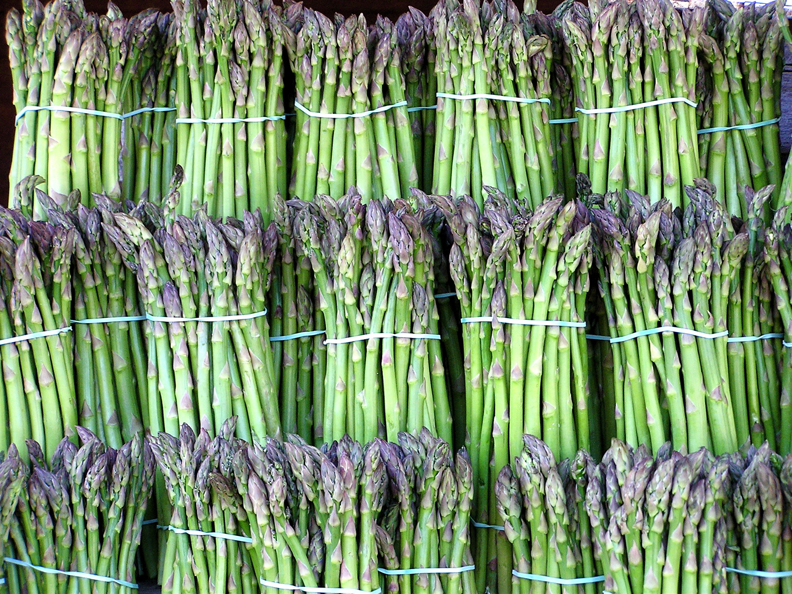 Asparagus bundled